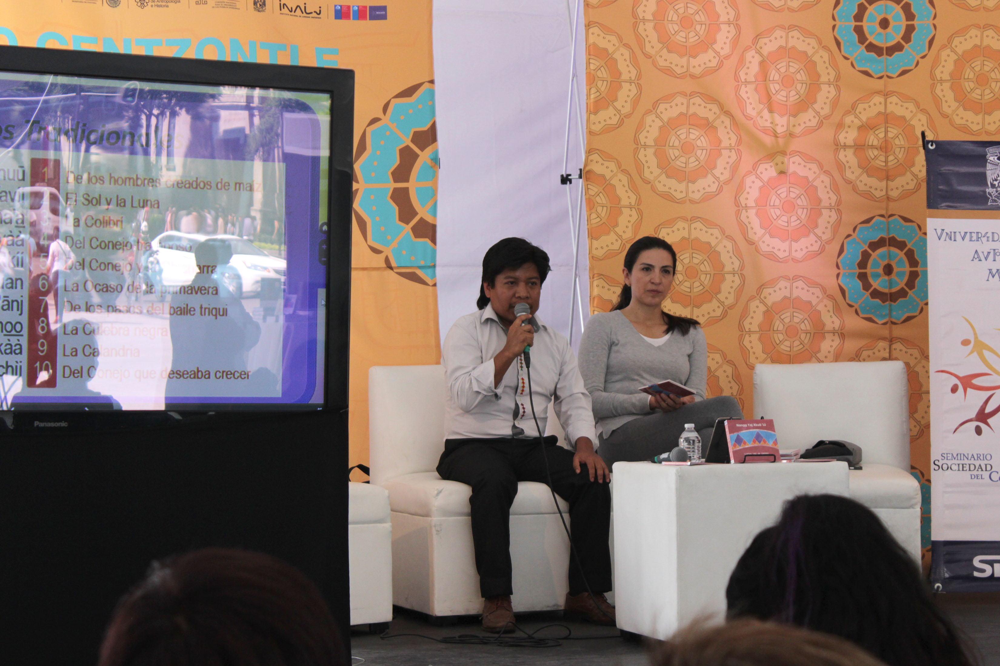 "Voices of Color" Spanish and Copala Triqui language presentation at V Fiesta de las Culturas Indígenas Pueblos y Barrios Originarios at Foro Centzontle